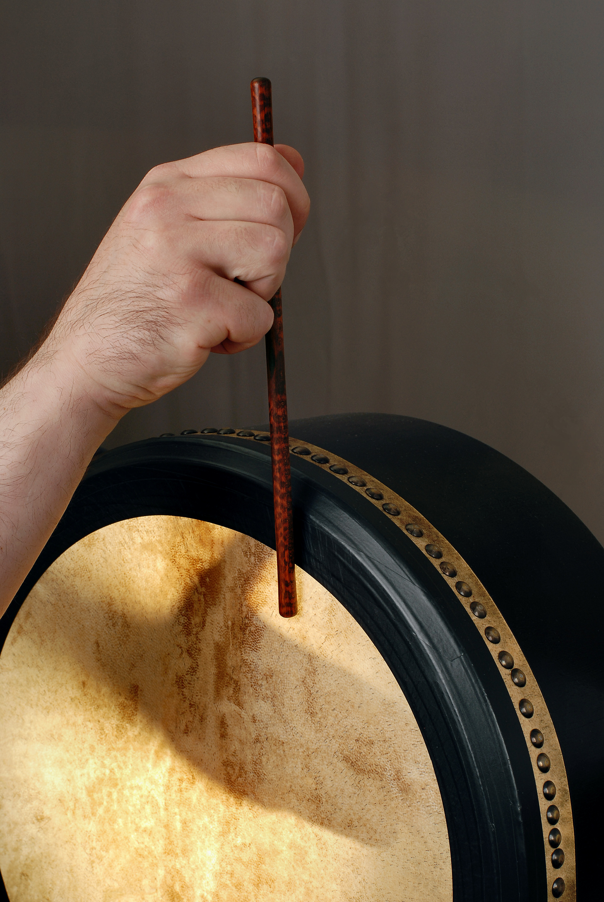 Bodhrán, Top-end style. The shadow of the left hand is visible.